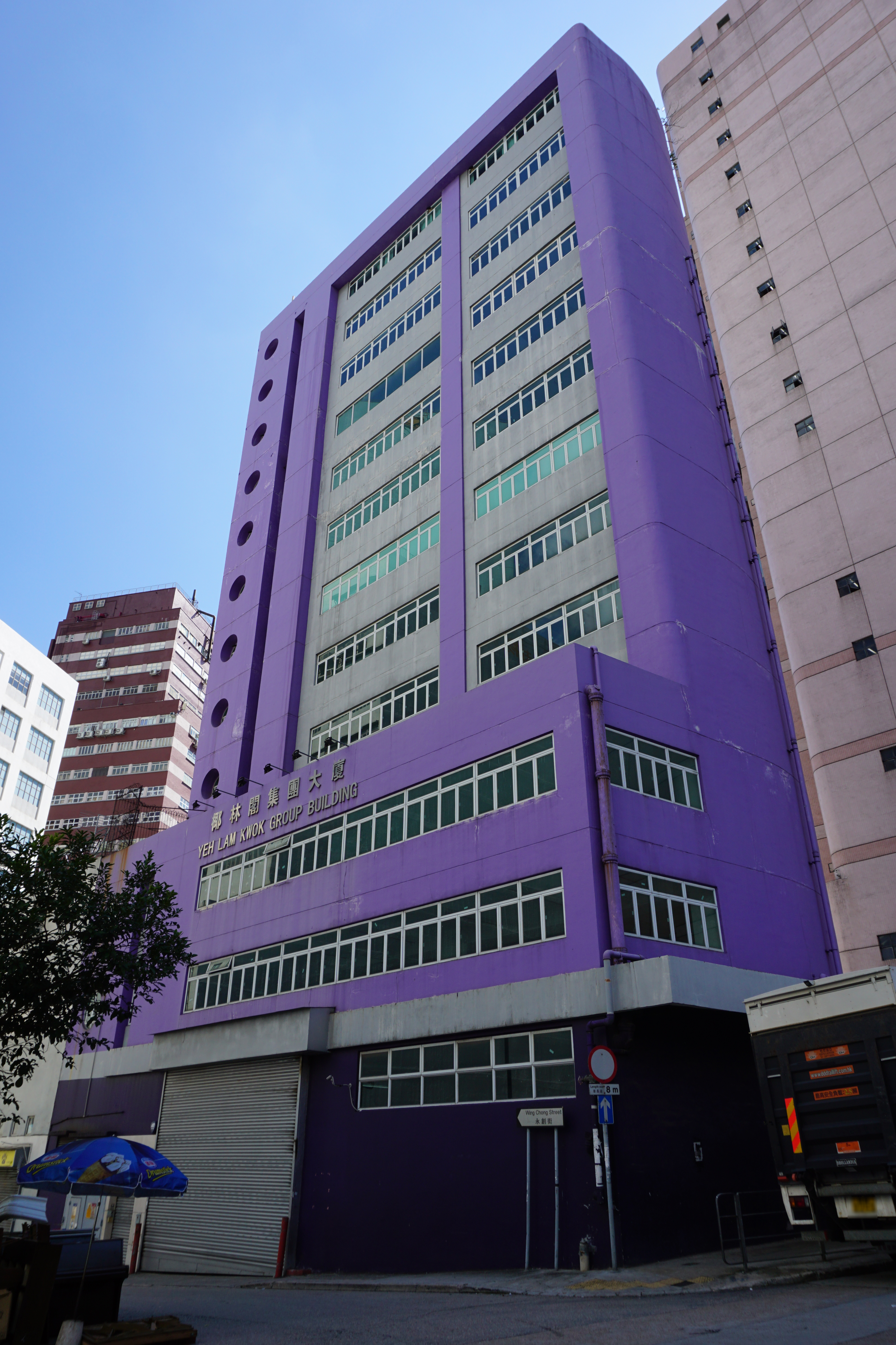 Yeh Lam Kwok Group Building in Kwai Chung, Hong Kong.